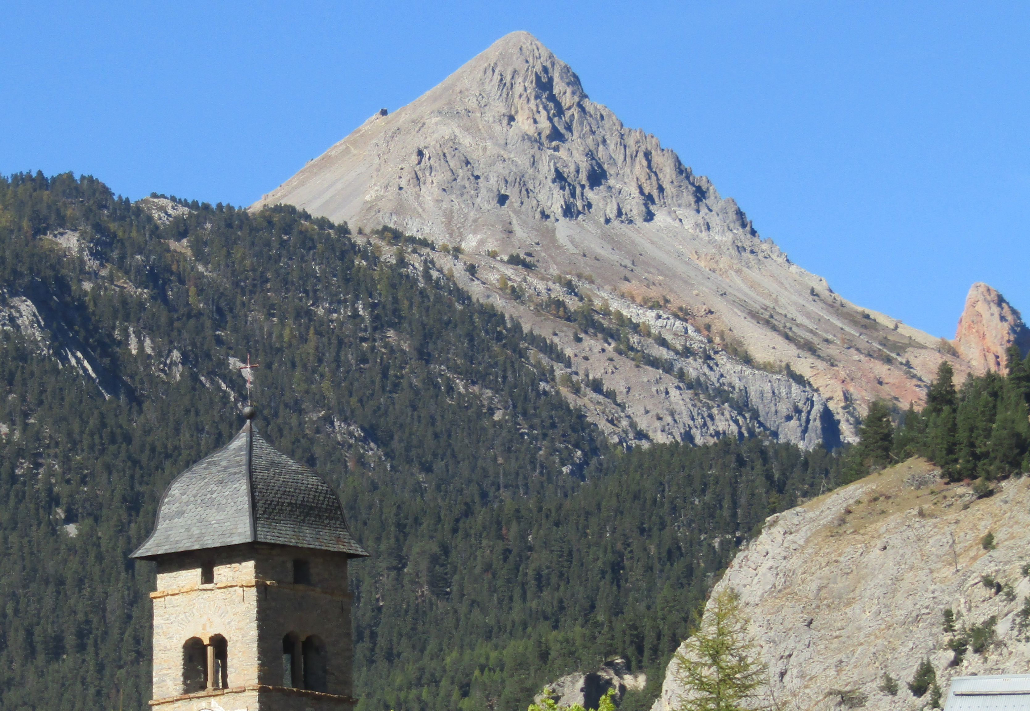 The Guglia Rossa (Cottian Alps) as seen from from Plampinet (Névache, France)